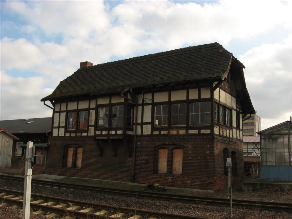 at train station in Quedlinburg